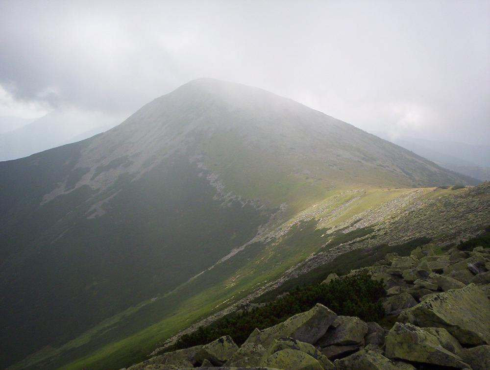 Small Syvulia.